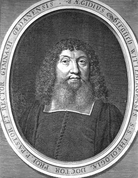 Aegidius Strauch (1632–1682), German Lutheran theologian, copper engraving from own archive